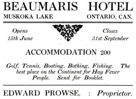 1905 advertisement for the Beaumaris Hotel from the "American Education" magazine published by Boston University